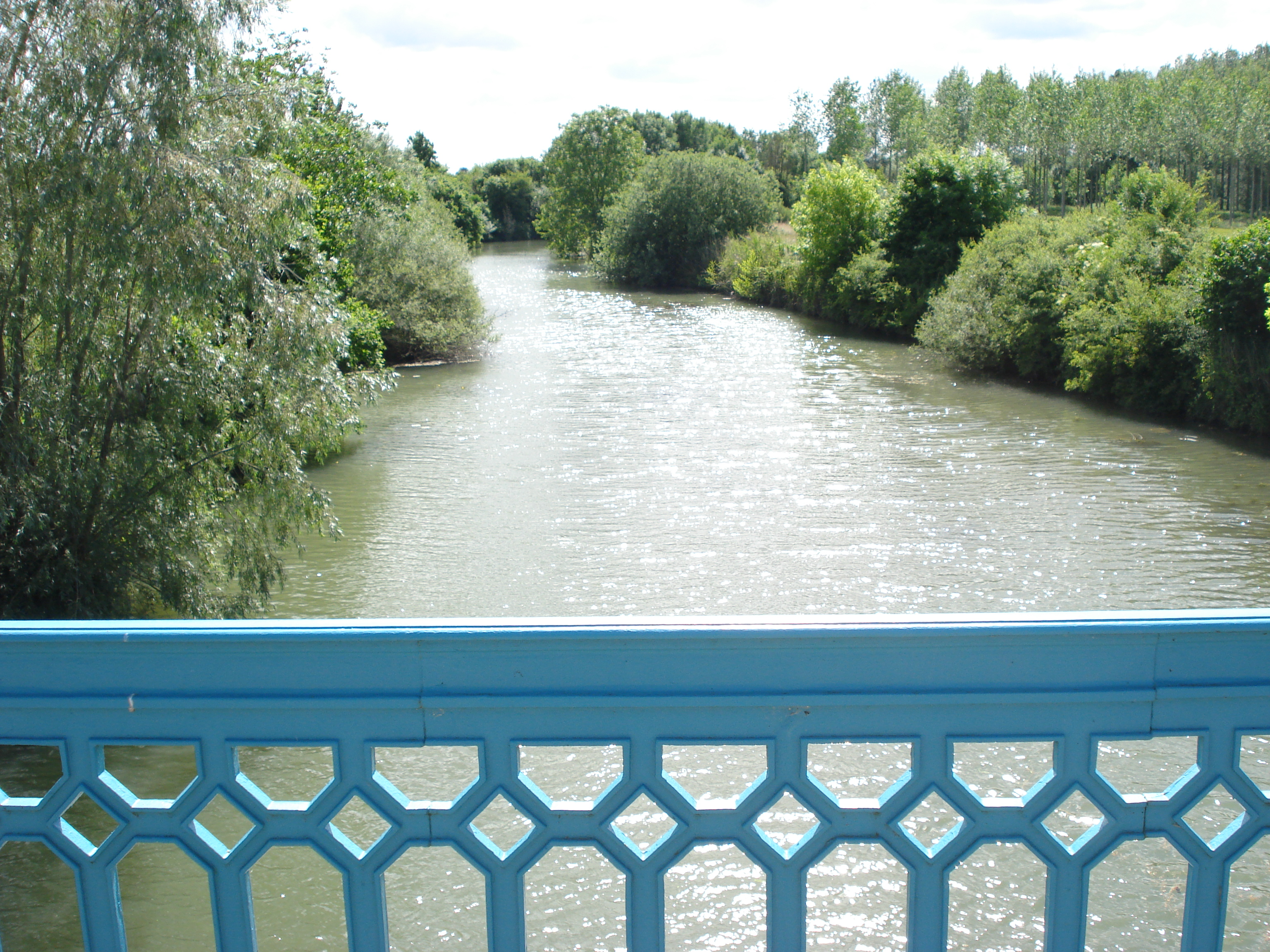 Voire at Rances (Aube,Fr)